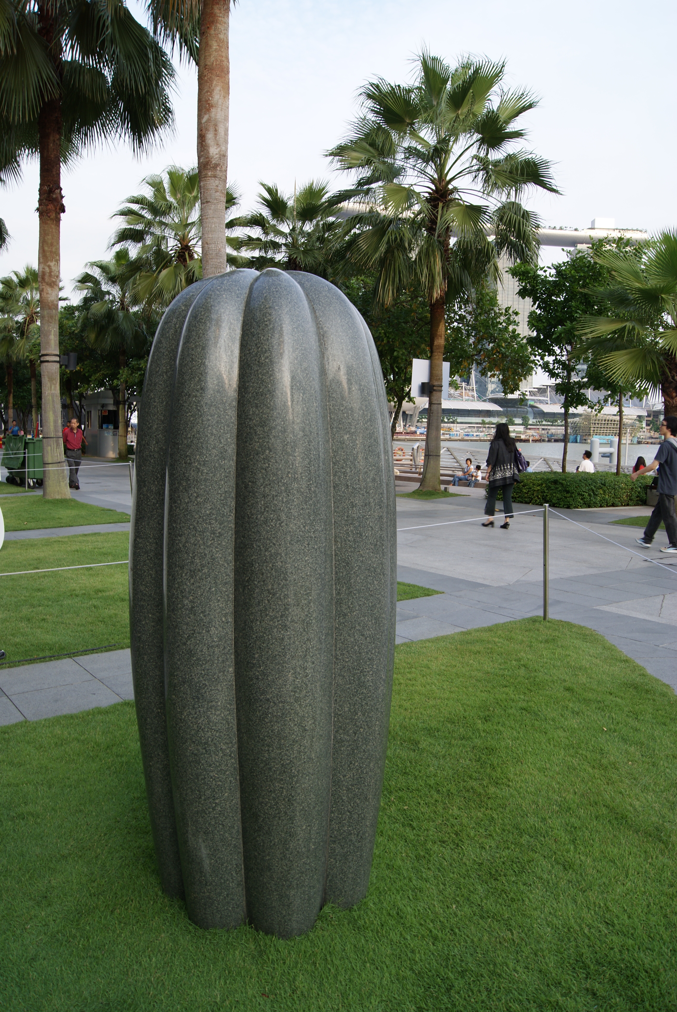 A sculpture shaped like a fruit or seed by Han Sai Por in the grounds of the Esplanade – Theatres on the Bay.